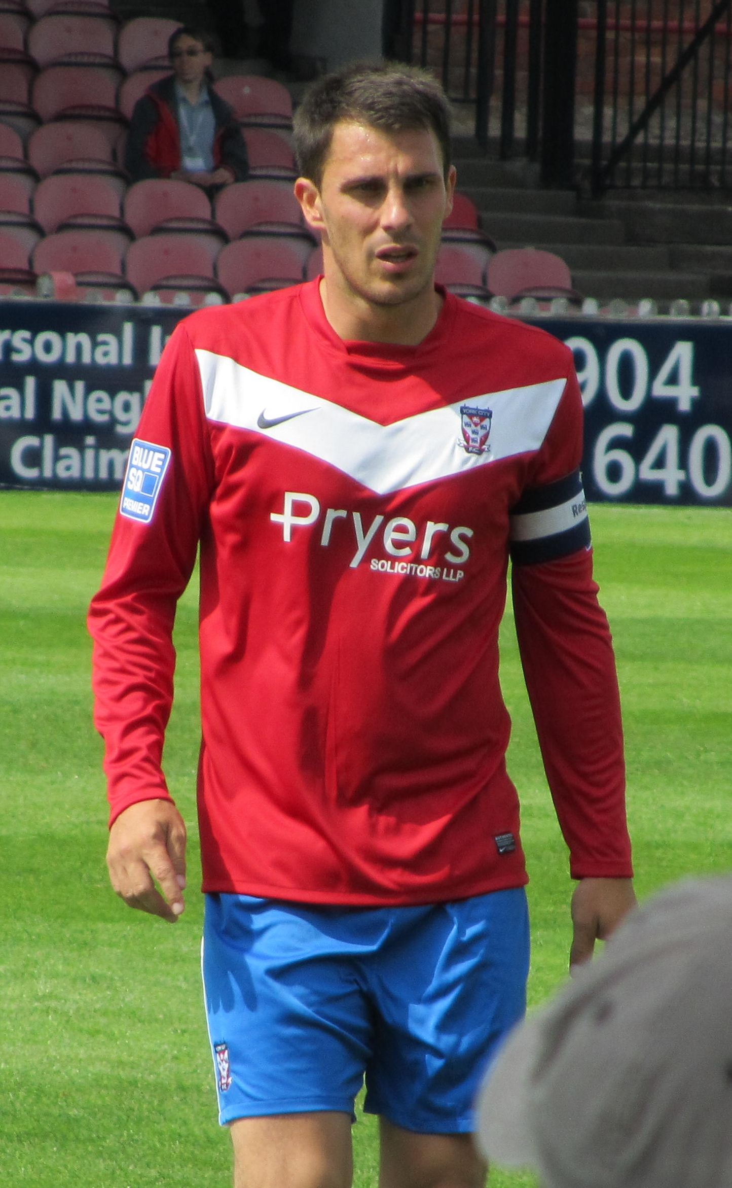 Chris Smith playing for York City against Hartlepool United at Bootham Crescent, York on 30 July 2011